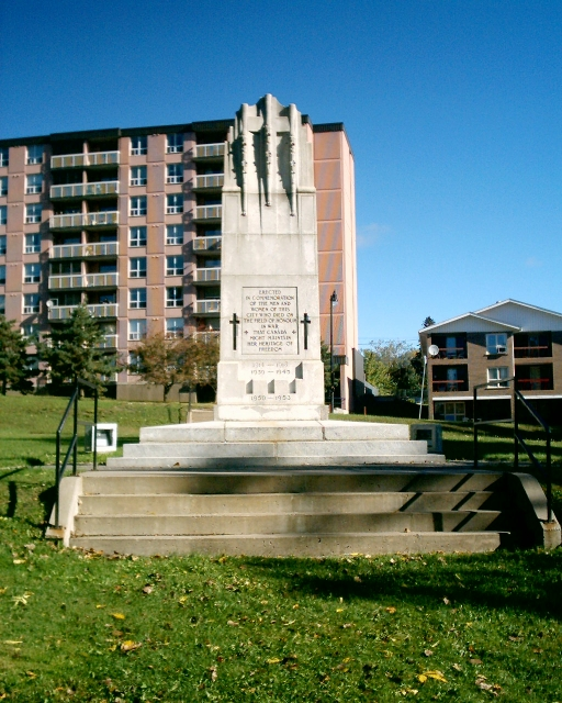 I, (Derek Silver), took this photograph on 01 October 2006. It is of the cenotaph in Thunder Bay, Ontario. I hereby release it into public domain for the masses to enjoy. :) Vidioman 11:18, 11 June 2007 (UTC)